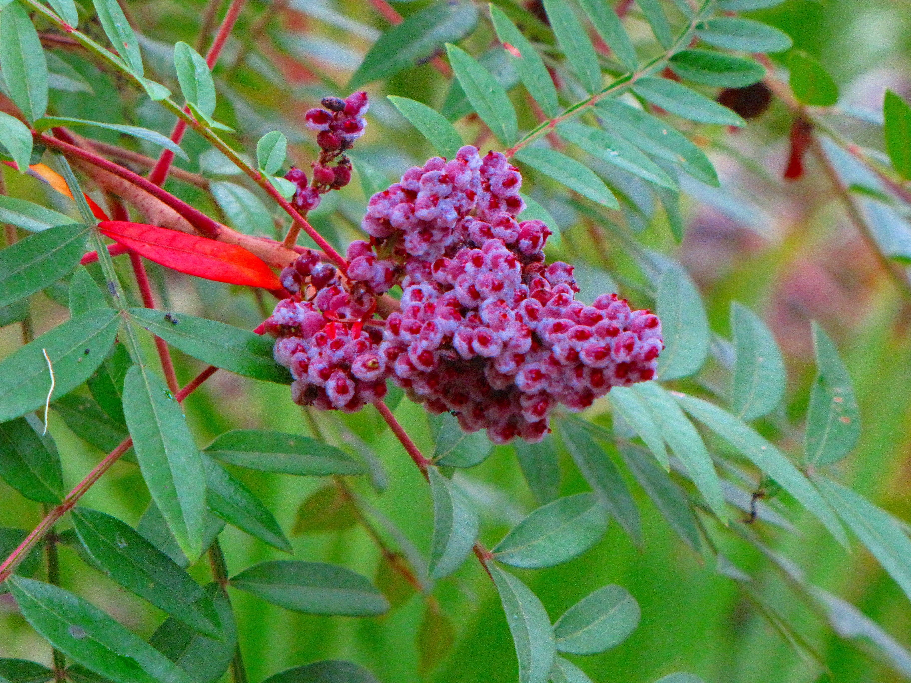 Winged Sumac Rhus copallinum fruit, Johnson Pond Trail, Trailwalker Trail, Withlacoochee State Forest, Citrus County, Florida